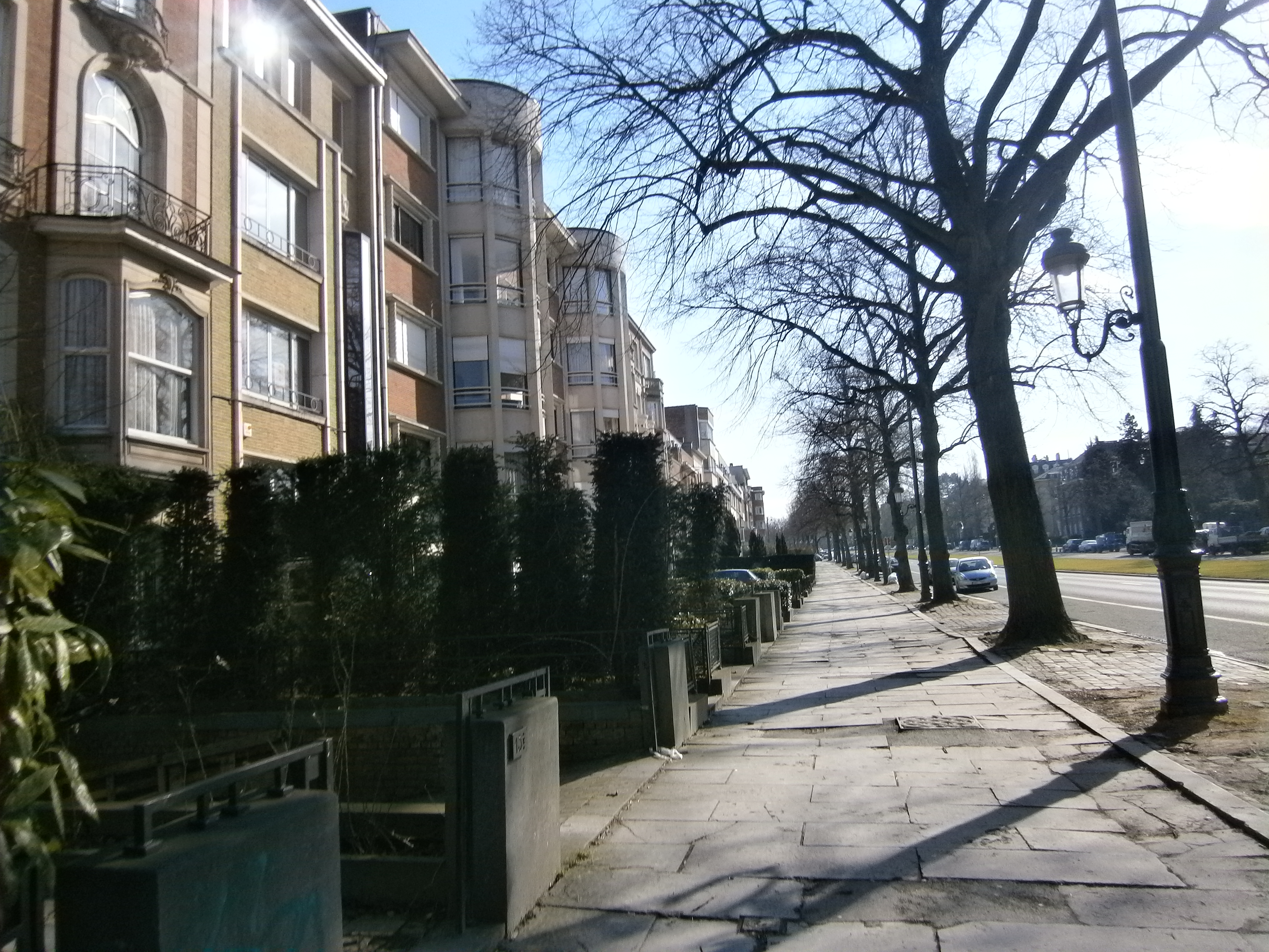 Avenue Franklin Roosevelt